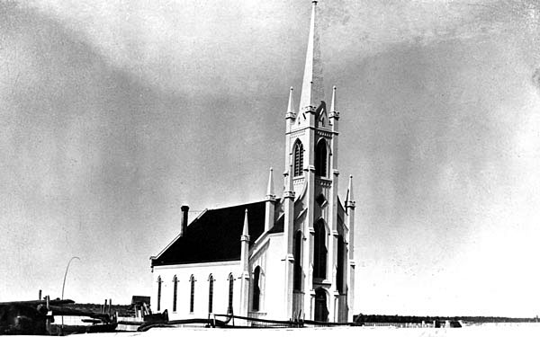 Presbyterian Church, Bass River, 1886. Provincial Archives of New Brunswick number P204-309.